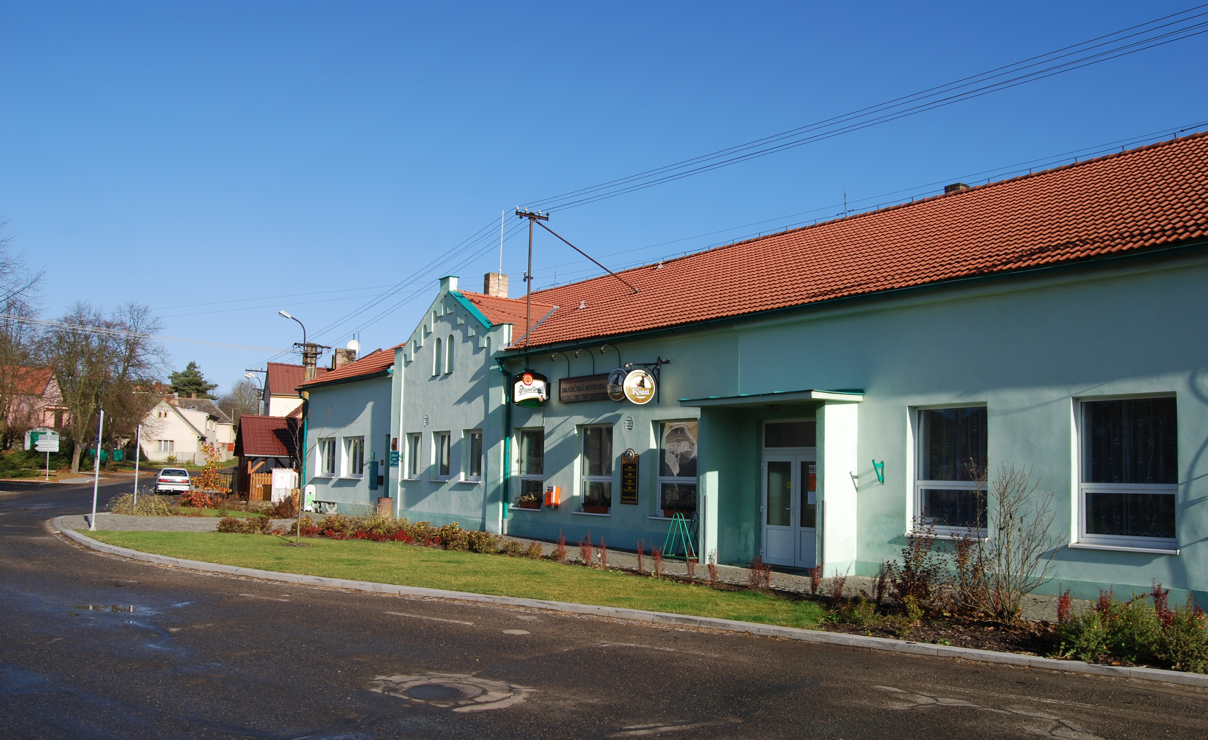 Dražíč village in České Budějovice District, Czech Republic. Pub